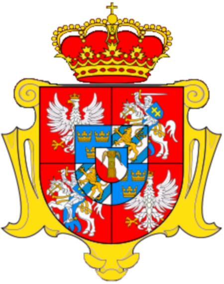 Coat of arms of the Polish branch of the House of Vasa as elected kings of Poland (with Lithuania, Ruthenia and Livonia) and rightful hereditary kings of Sweden (with Finland, Estonia, Ingria and Karelia), between 1587-1668. (Polish-Swedish personal union). They are the arms of Poland-Lithuania with the arms of Sweden placed in a first inescutcheon, do note a second inescutcheon with the Vasas' crest 1-4, Crowned white eagle (also Piast dynasty eagle) of the Kingdom of Poland 2-3, Pursuer knight of the Grand Duchy of Lithuania 5-8, Three Crowns of the Kingdom of Sweden (also, modern-Sweden crest or Magnus IV's crest) 6-7, Crowned golden lion of the House of Bjelbo or Folkung (also, old-Sweden crest or Magnus I's crest) 9, Wheat garb of the house of Vasa.